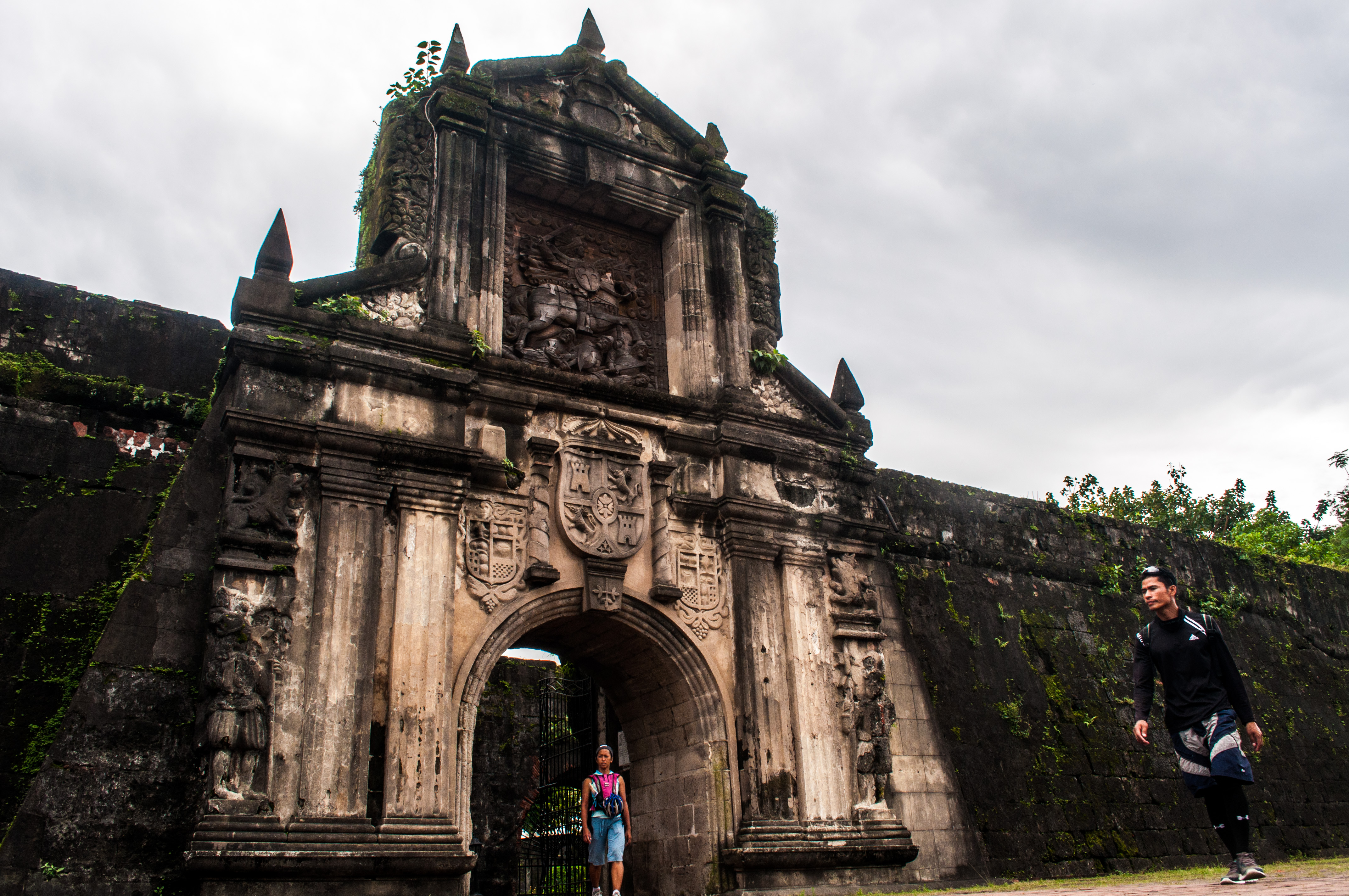 Wall City of Intramuros Manila